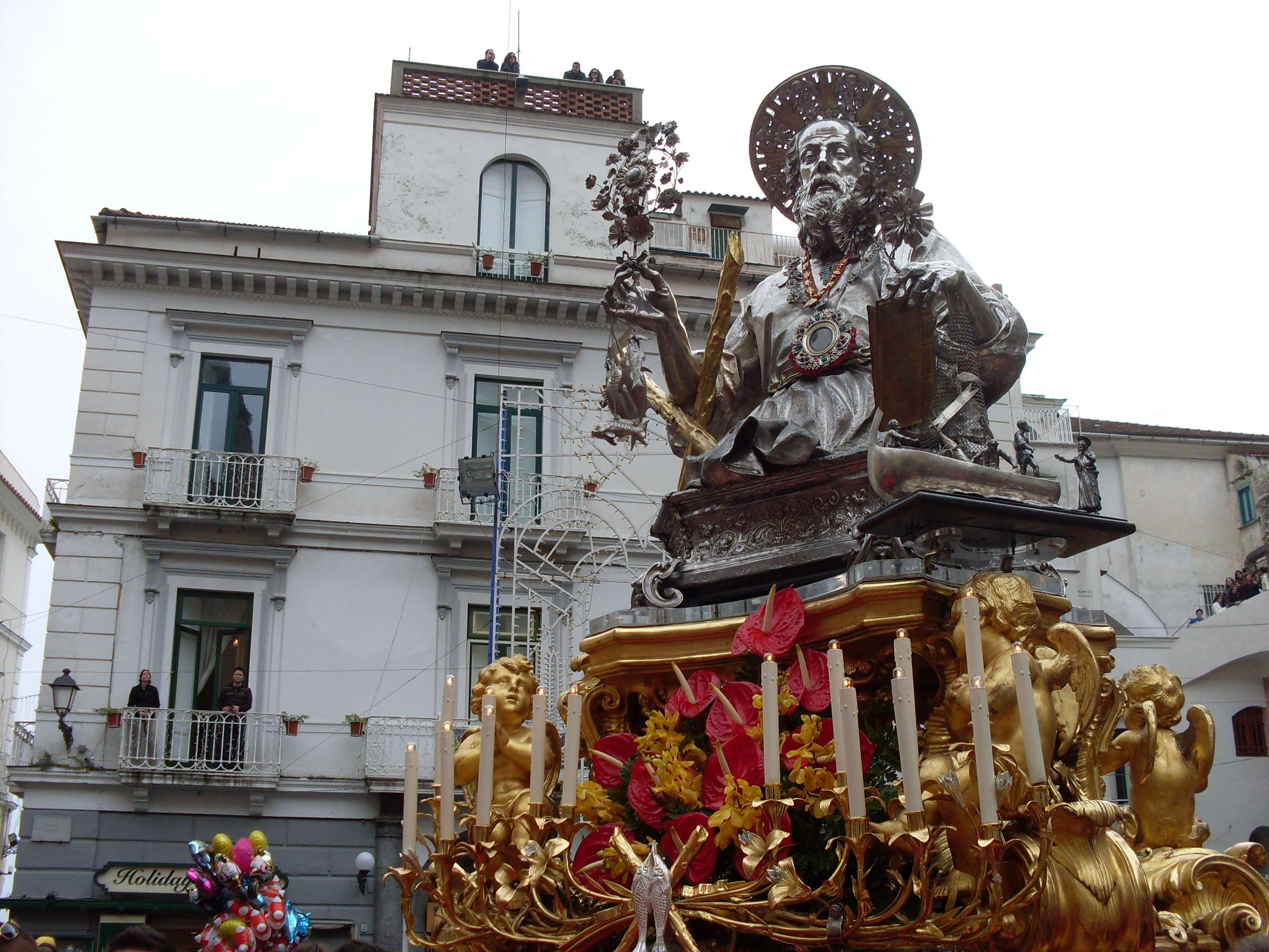 Silver statue of St. Andrew (kept into the Cathedral of Amalfi) during the solemn procession on 30th of November.